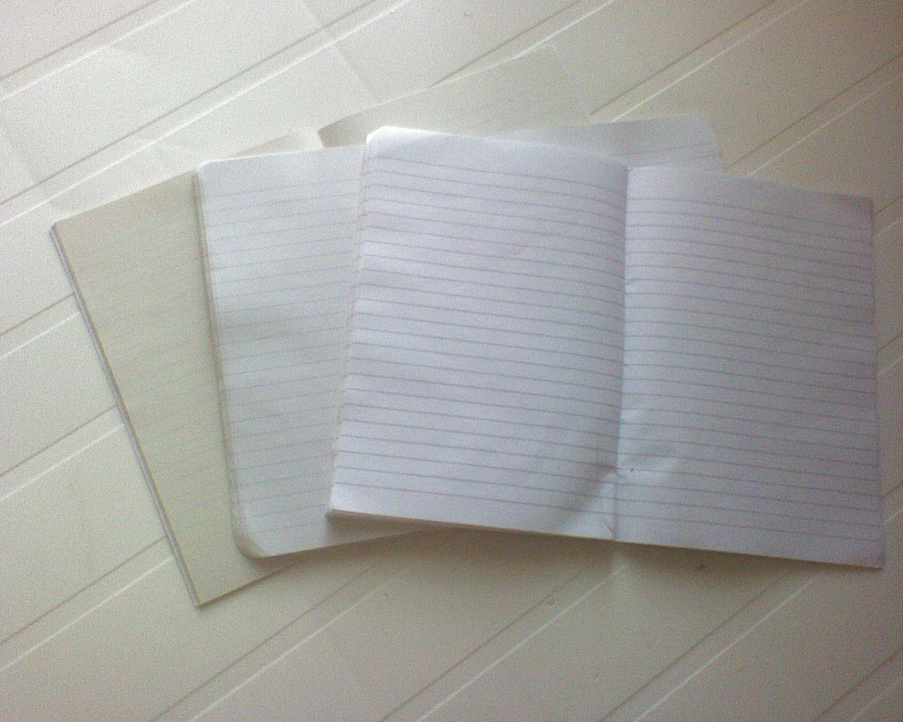 Notebooks